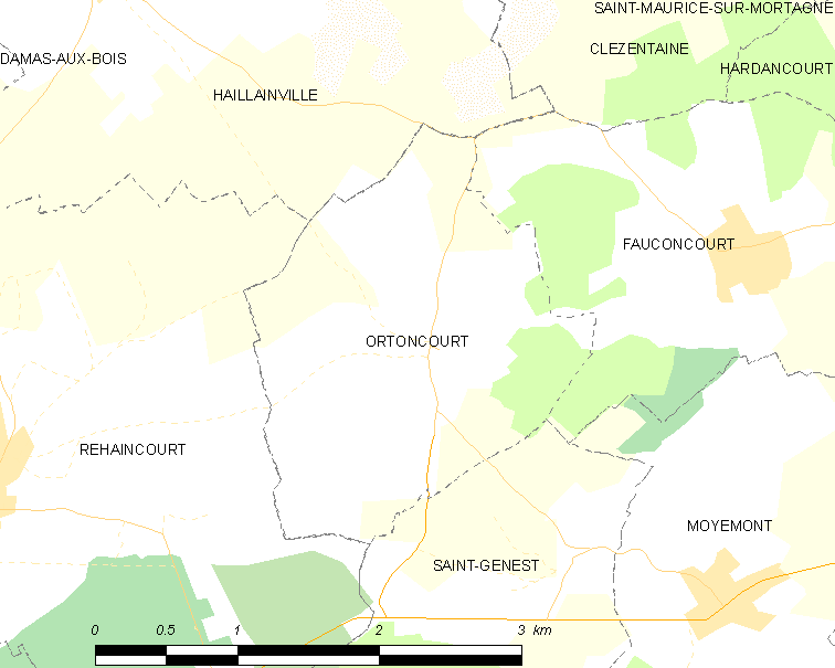 Map of French municipality Ortoncourt